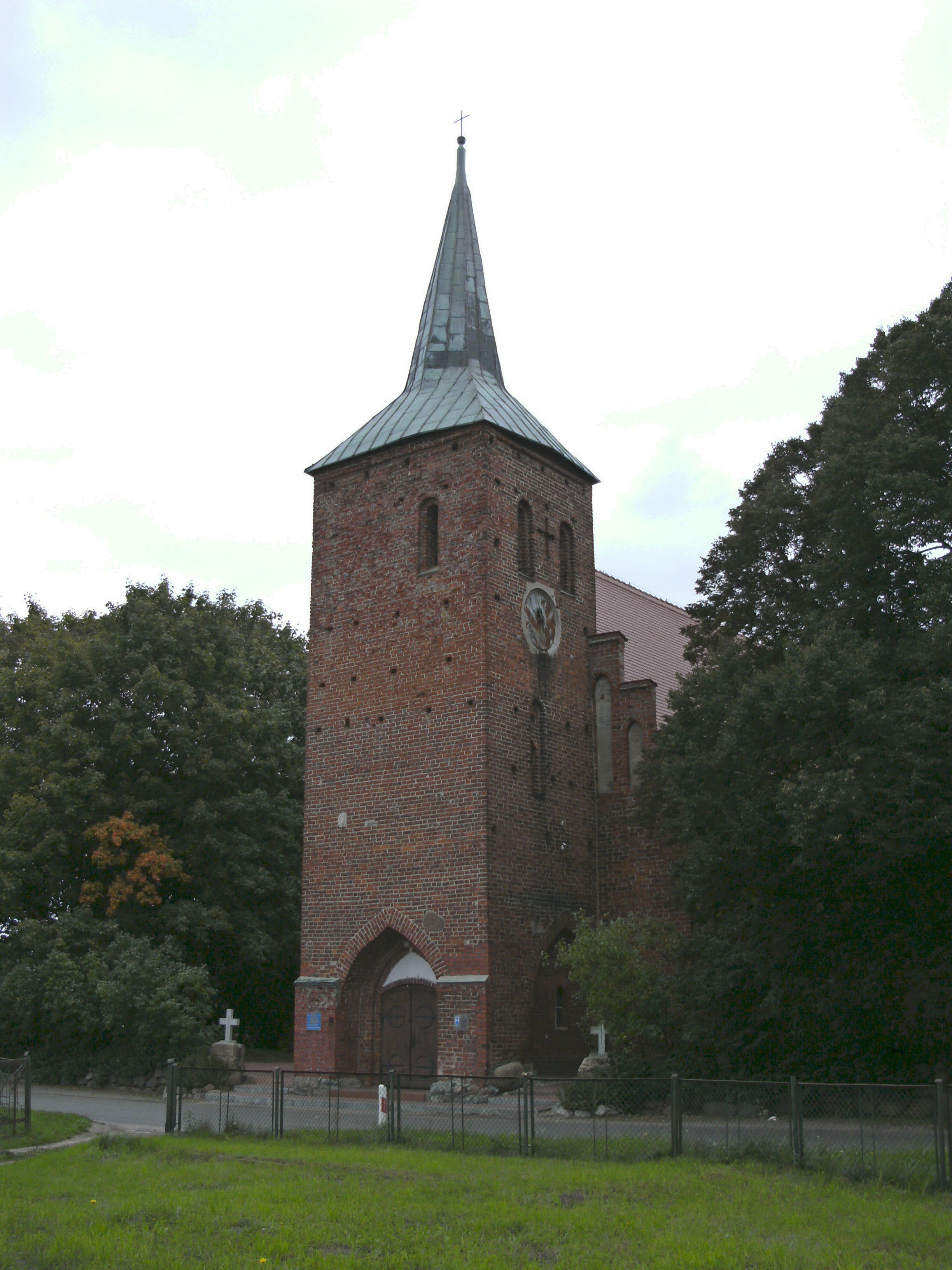 Sacred Heart church in Bukowo Morskie (Polish Catholic church)